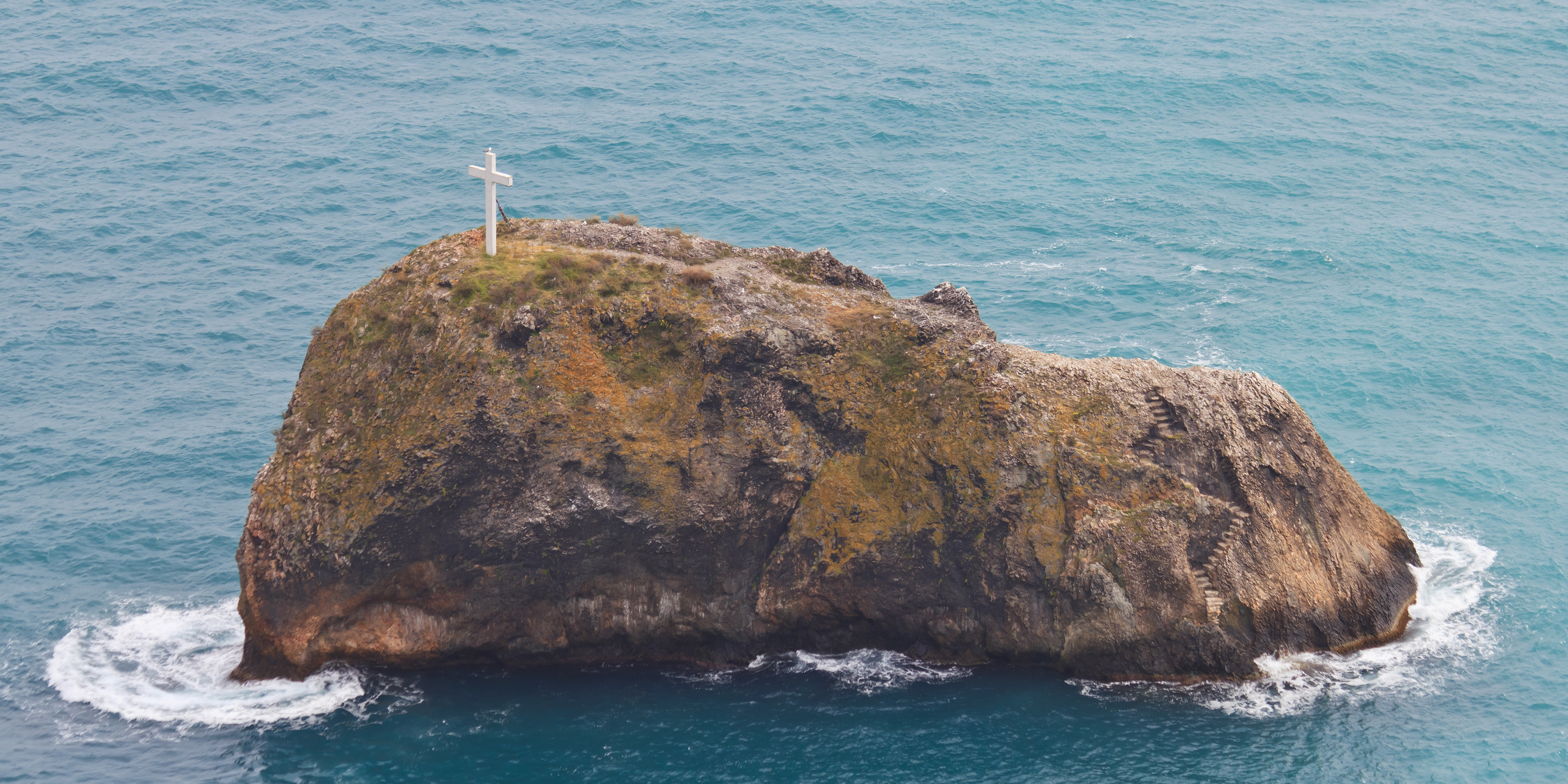 View to the rock with cross near Saint George Monastery at Cape Fiolent in the Federal City of Sevastopol. Crimean peninsula.